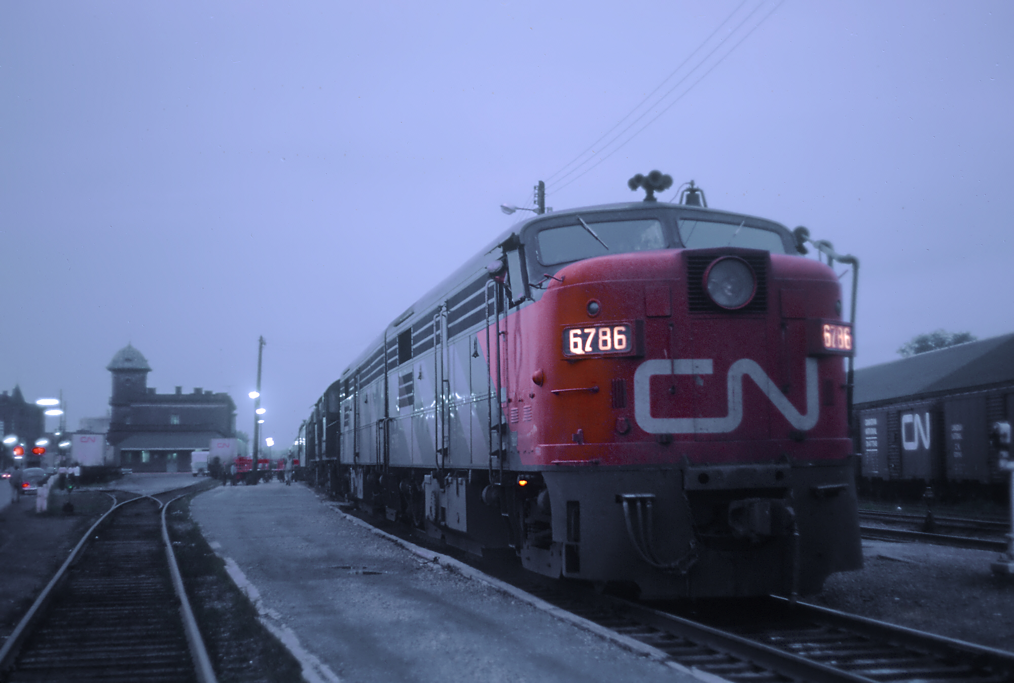 Here is Roger Puta's caption: "CN Train 12, the Scotian, led by FPA4 6786 at Truro, NS on September 5, 1970." And here is the 1954 schedule: A Roger Puta Photograph